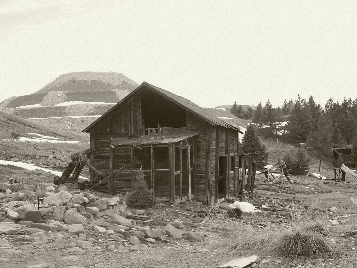 One of two remaining structures in Finntown, CO. They probably date from the 1880s. update- 18 May 07: I drove past this again today and some vandals burned it down! I was just there less than a week ago!